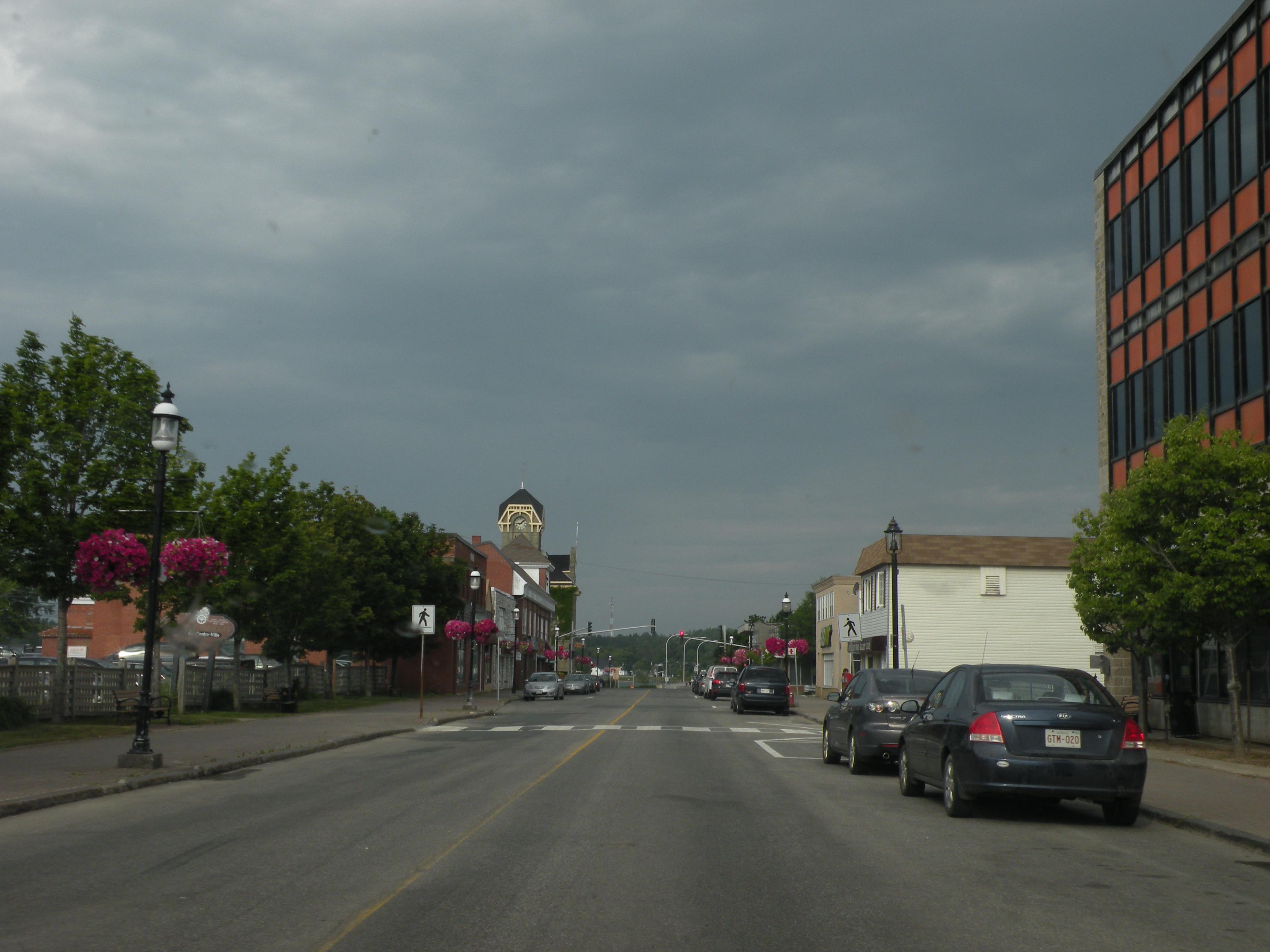 Main Street in Bathurst, New Brunswick, Canada. It's also road 134.